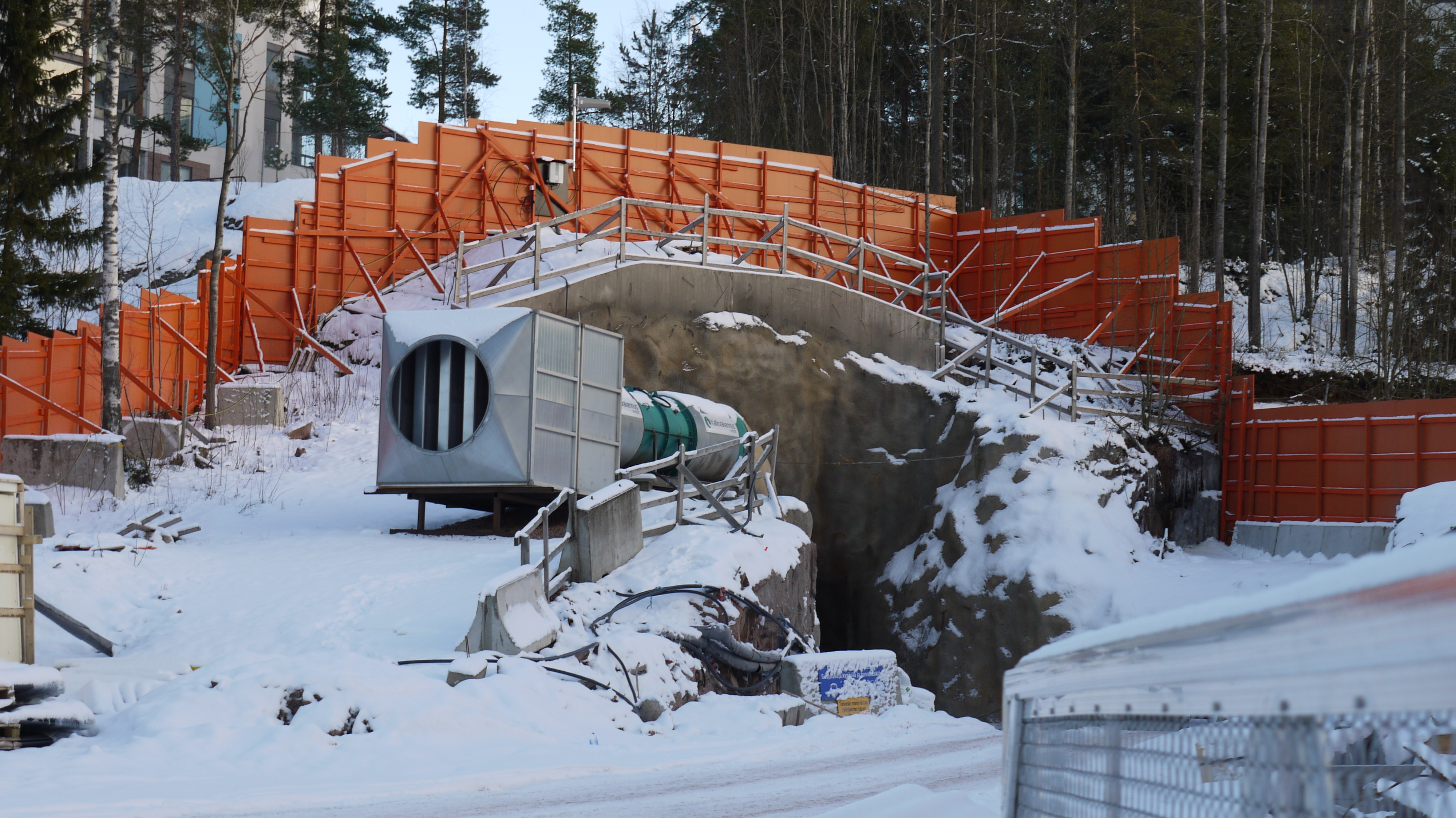 Entrance to the access tunnel of the Espoonlahti metro station construction site.